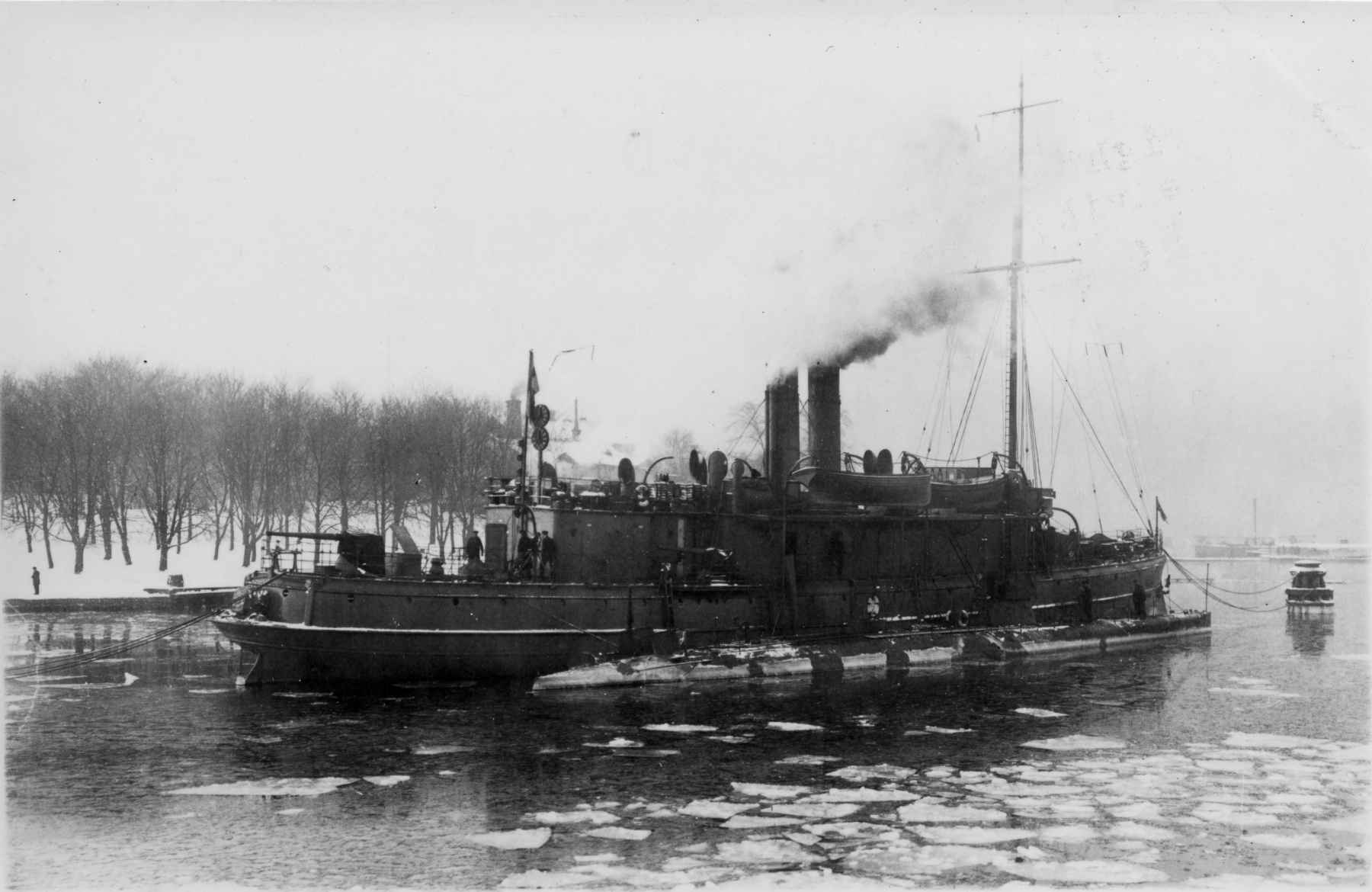 HMS Skäggald with the submarine HMS Hvalen, 1915. From Curt S. Ohlsson's collections.